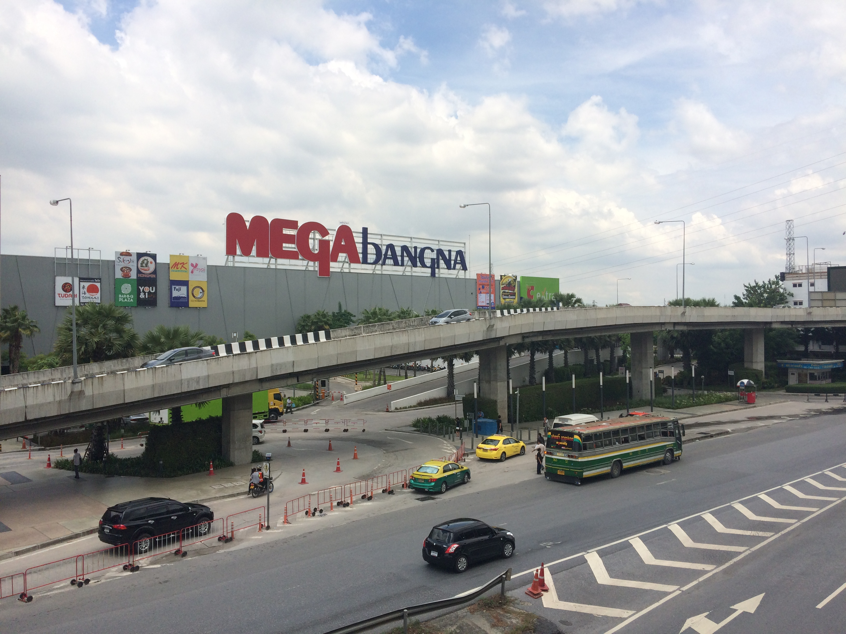 Maga Bangna